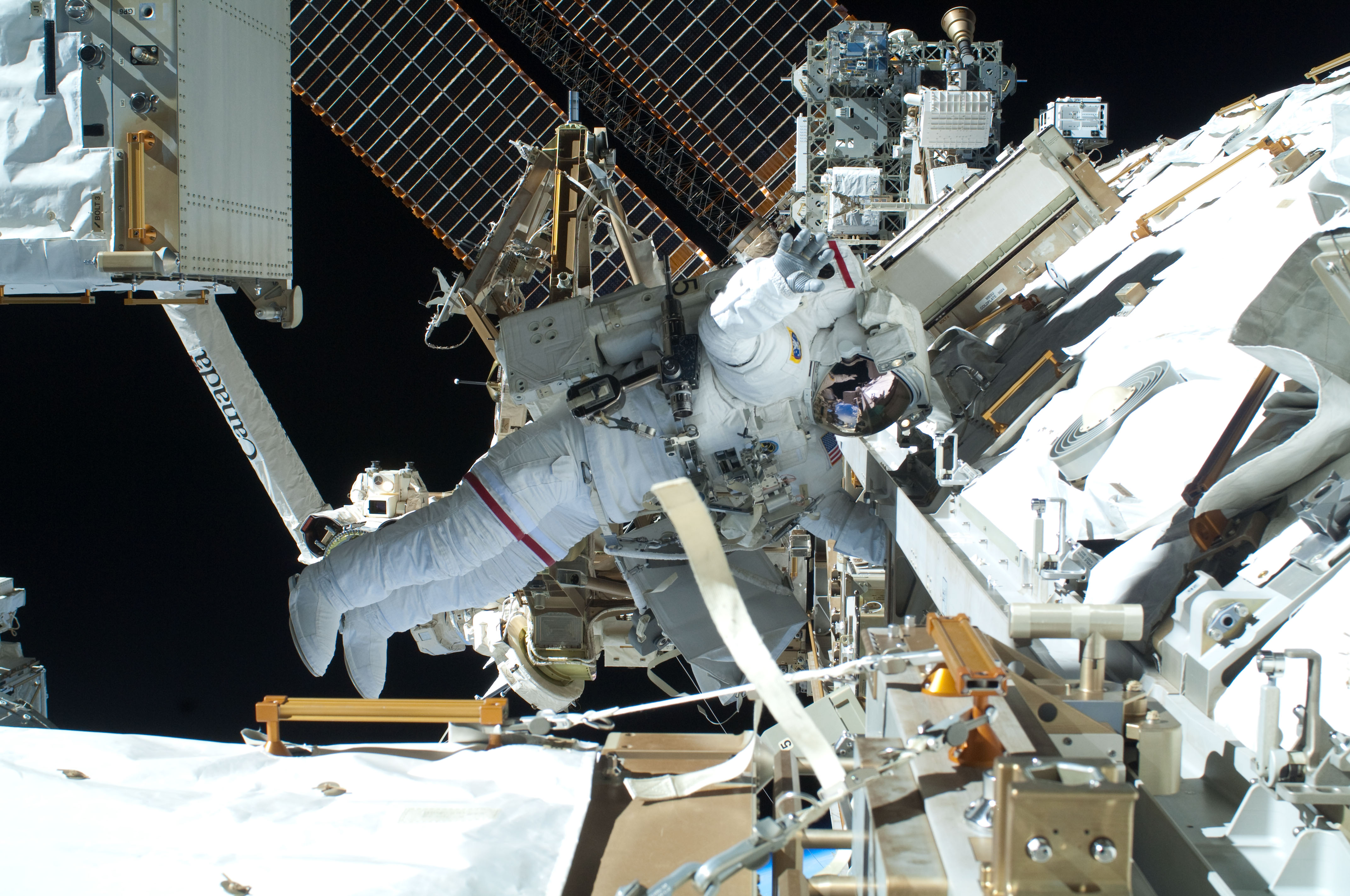 NASA astronaut Rick Mastracchio, STS-131 mission specialist, participates in the mission's second session of extravehicular activity (EVA) as construction and maintenance continue on the International Space Station. During the seven-hour, 26-minute space-walk, Mastracchio and astronaut Clayton Anderson (out of frame), mission specialist, unhooked and removed the depleted ammonia tank and installed a 1,700-pound ammonia tank on the station's Starboard 1 truss, completing the second of a three-space-walk coolant tank replacement process.